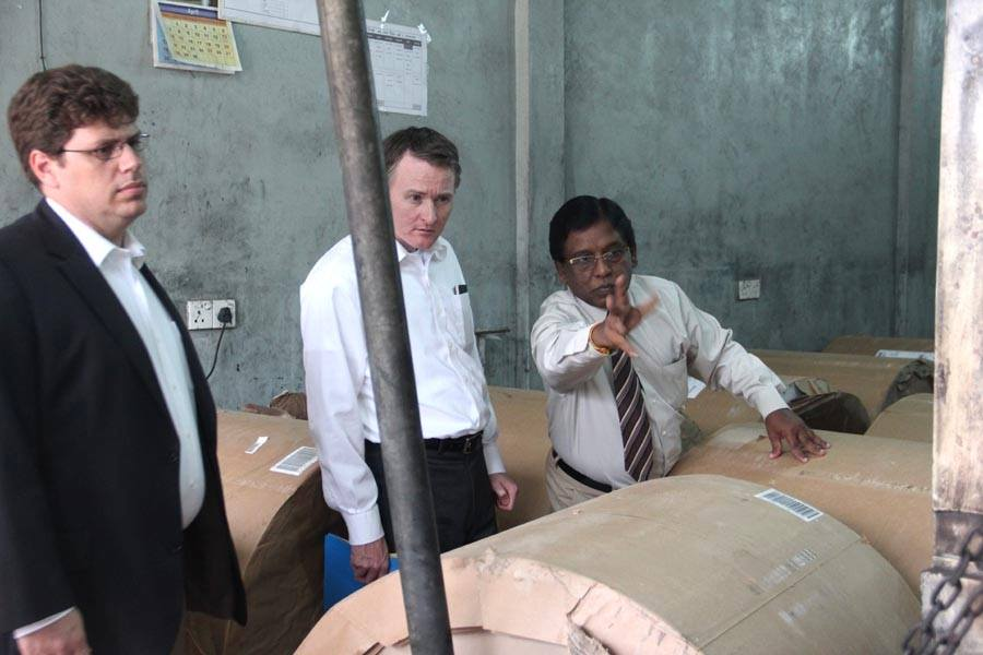 Chris Murphy and another official from the US Senate Foreign Relations Committee inspecting printing press of Uthayan newspaper in Jaffna on 7 December 2013 while talking with E. Saravanapavan, the Managing Director of the newspaper.